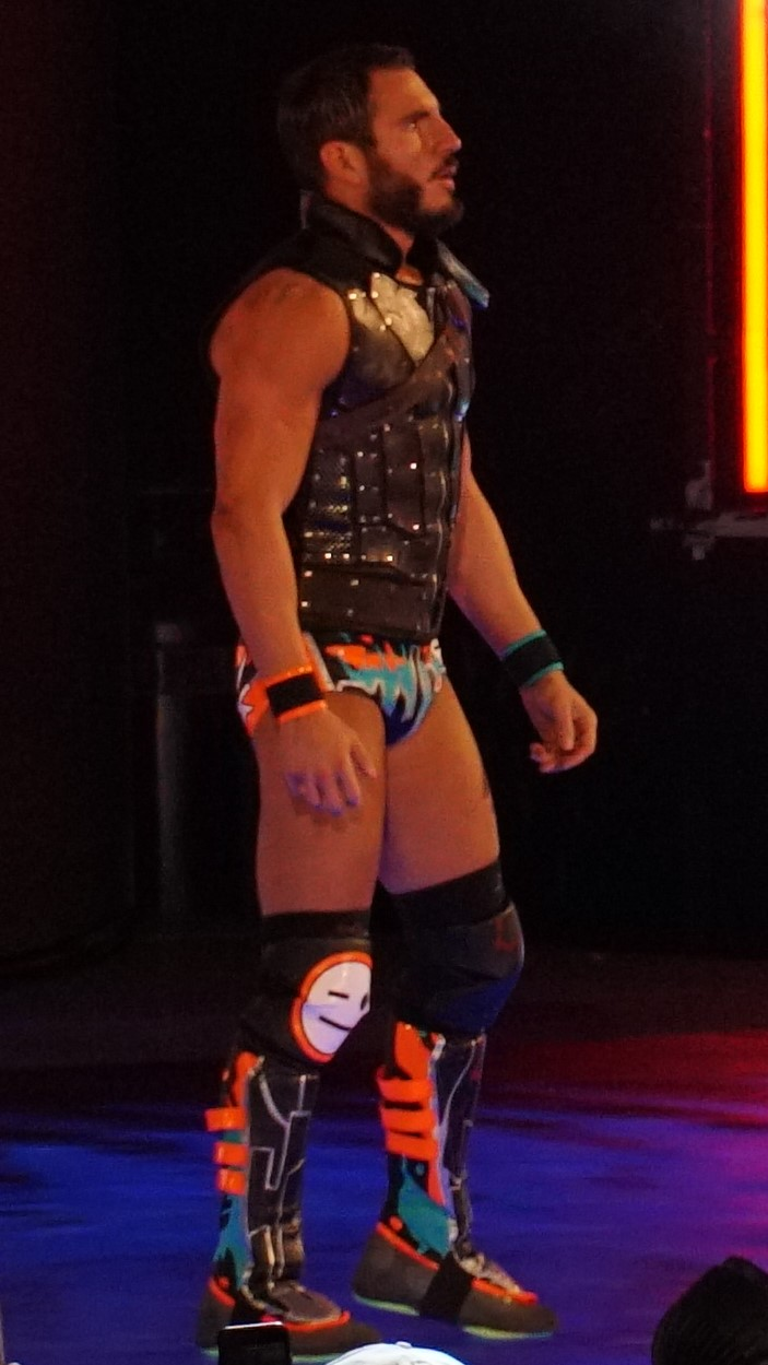 Johnny Gargano enters the arena at NXT TakeOver: New Orleans in April 2018.